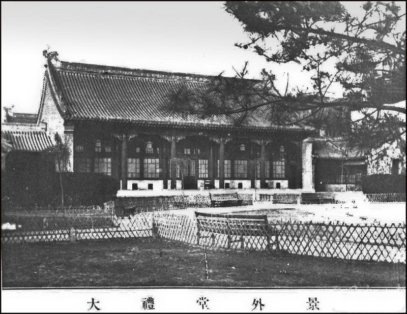 Main Hall, Campus No.2, Peking University, Facade